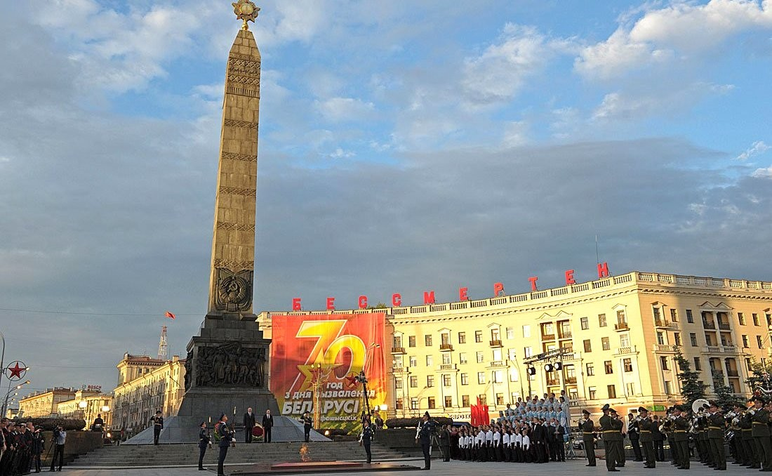 Victory Square during the celebration's of the 70th anniversary of the Liberation of Belarus.